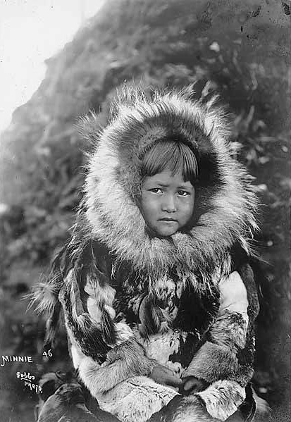 Eskimo girl named Minnie, ca. 1906 Photographer: Dobbs, B.B. (Beverly Bennett) Subjects (LCSH): Eskimo children--Alaska Girls--Alaska Parkas--Alaska Digital Collection: Alaska, Western Canada and United States Collection Item Number: NA2338 Persistent URL: Visit Special Collections page for information on ordering a copy. University of Washington Libraries. Digital Collections